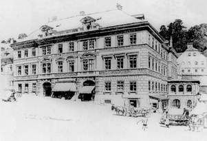 Royal Hungarian Mining and Forestry Academy